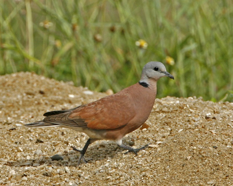 A male Red Turtle Dove (Streptopelia tranquebarica) at some reclaimed land, Changi, Singapore.